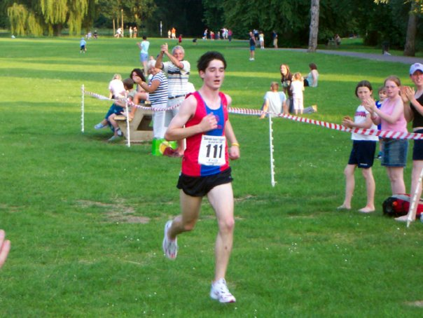 Description: David Bishop competing in his home town, Chippenham. Date: August 2005 Location: Chippenham, Wiltshire